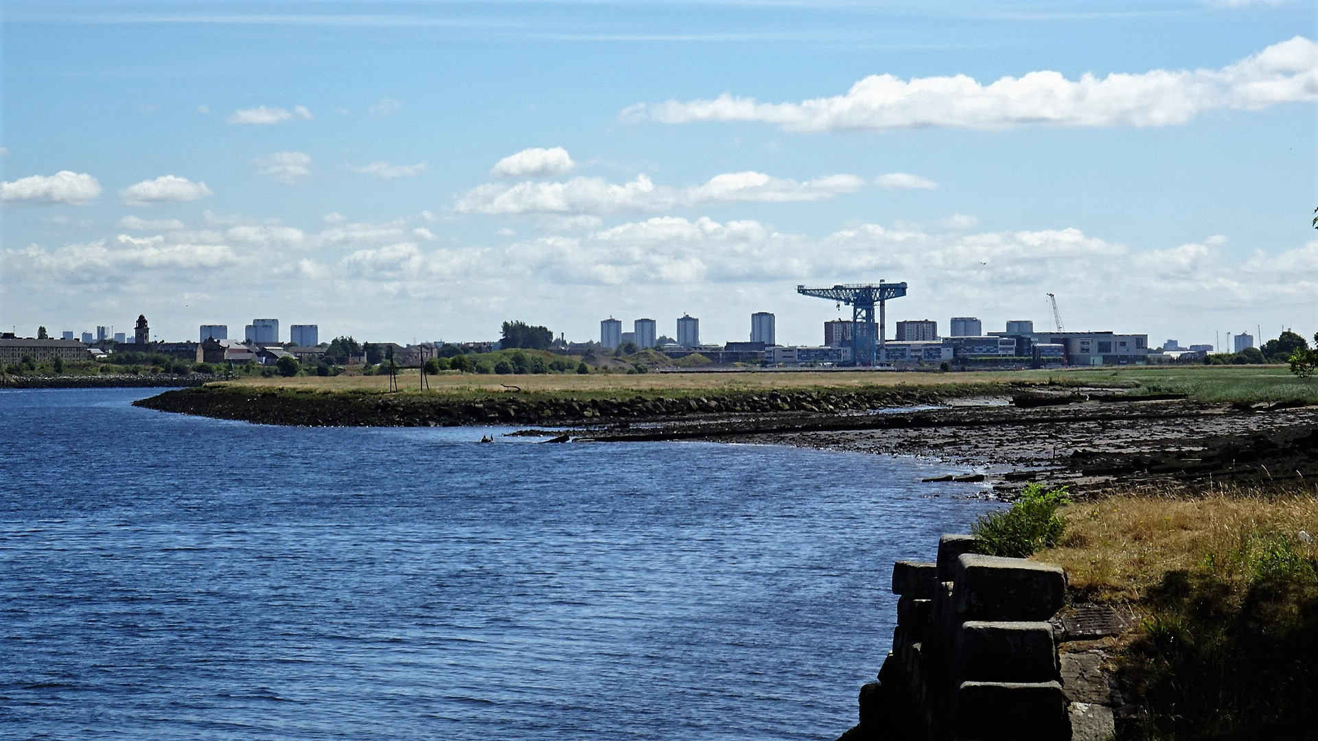 Park Quay and Newshot Island, River Clyde, Erskine